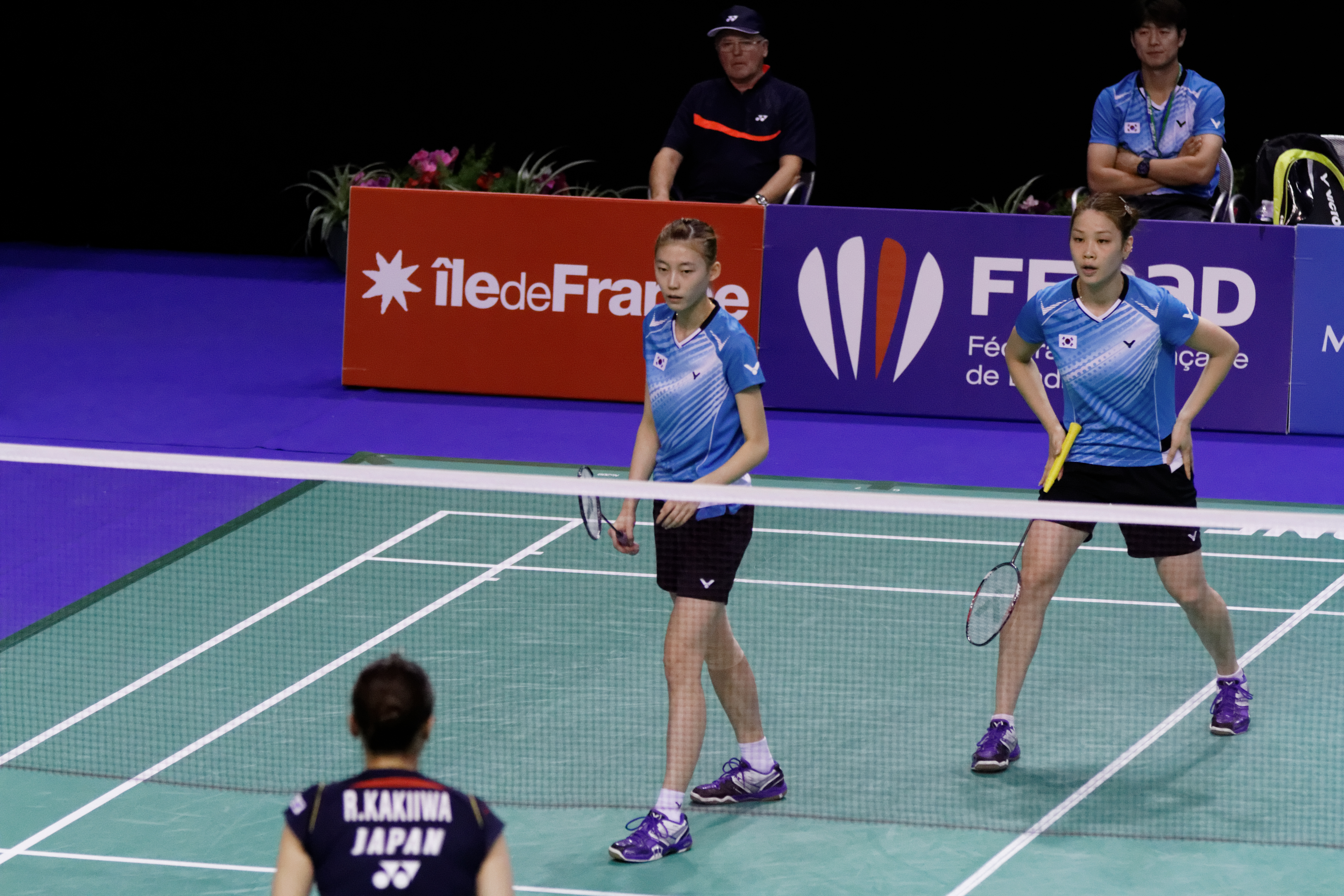 2013 French open. Women's doubles eightfinal. Jung Kyung-eun and Kim Ha-na vs Reika Kakiiwa and Miyuki Maeda.